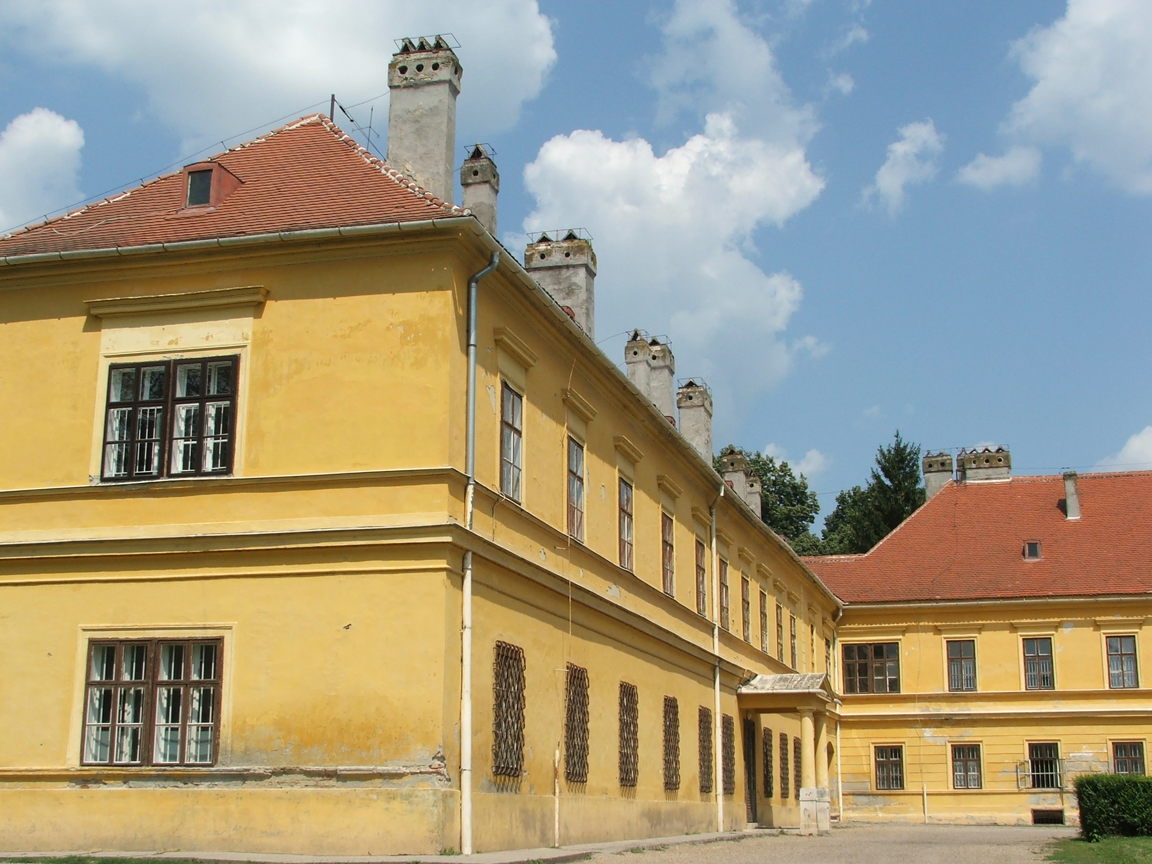 Széchenyi Mansion, Somogyvár